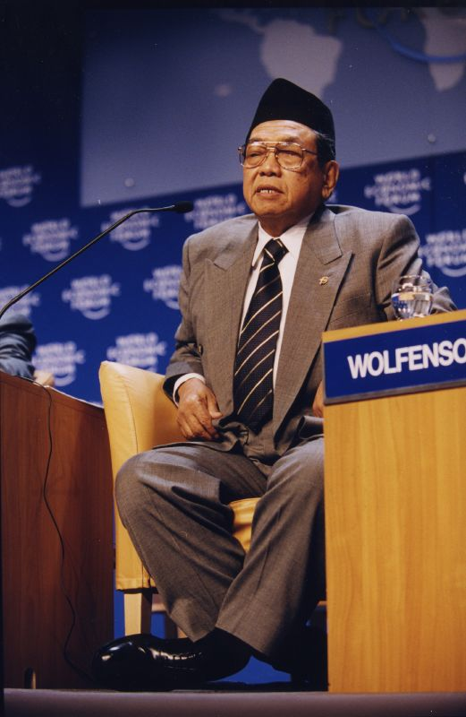 Abdurrahman Wahid, President of Indonesia Copyright World Economic Forum (